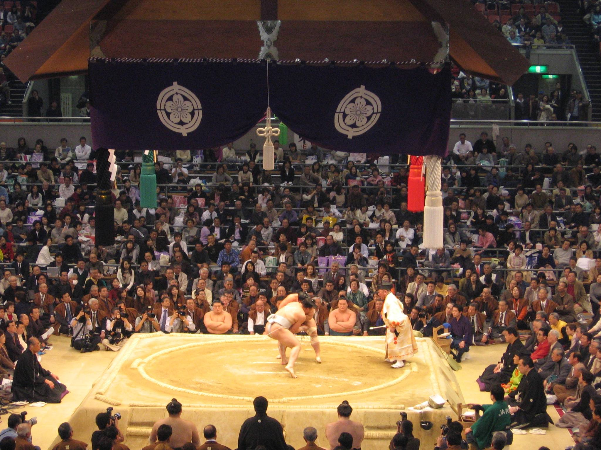 Dohyo (sumo ring) at Osaka Sumo Tournament 2006. I made the picture Peter 111 04:59, 19 March 2006 (UTC)